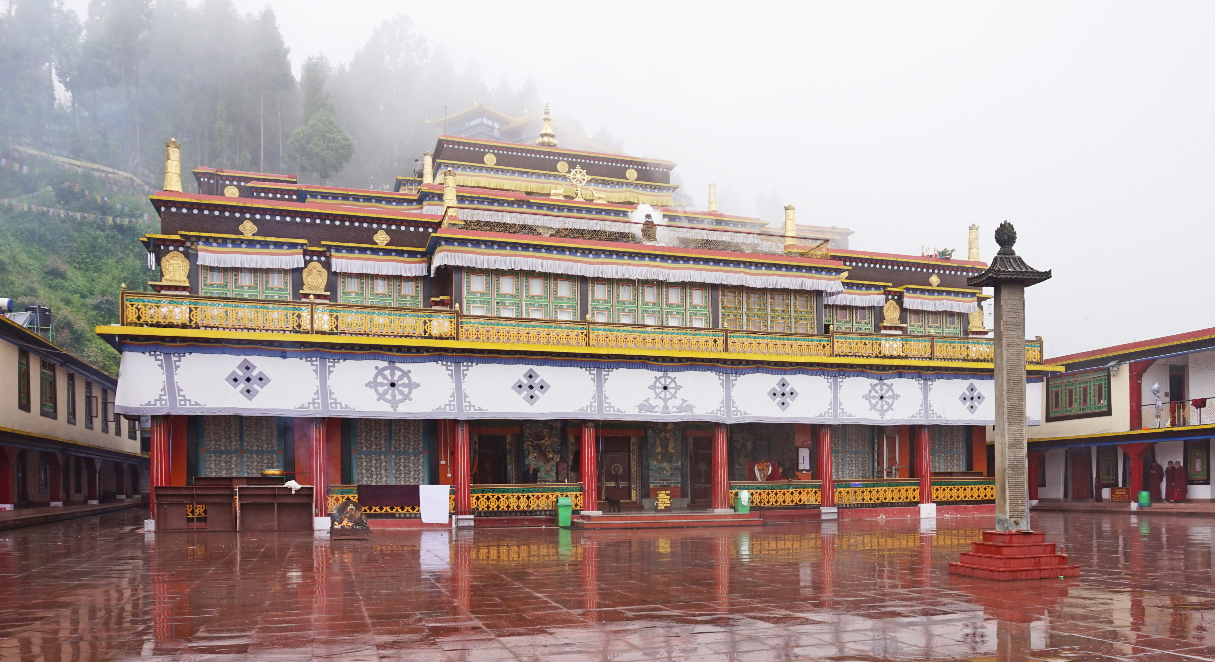 Rumtek Monastery, Sikkim, India